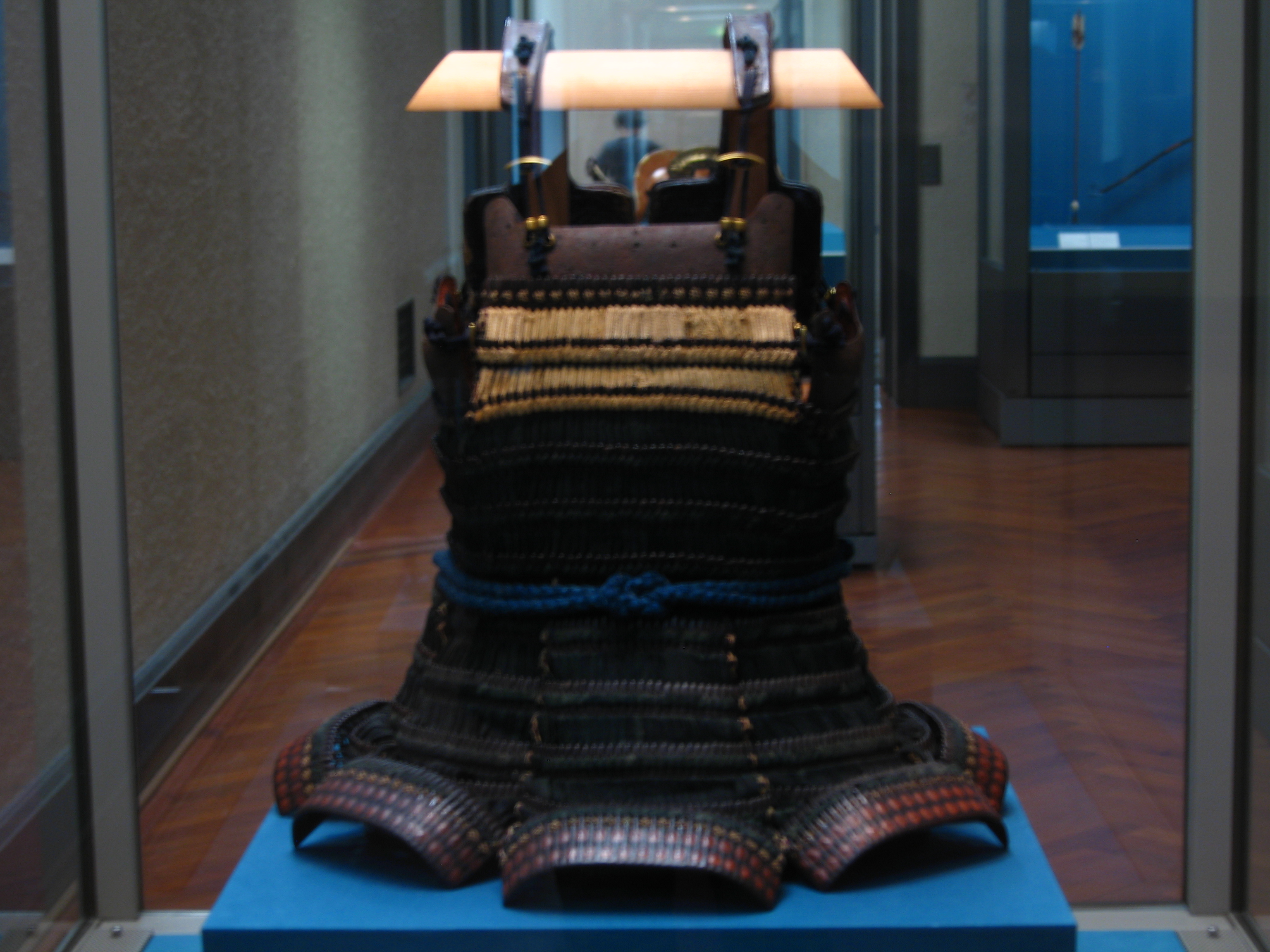 A haramaki made in 15th century at Tokyo National Museum. This is a Front view.